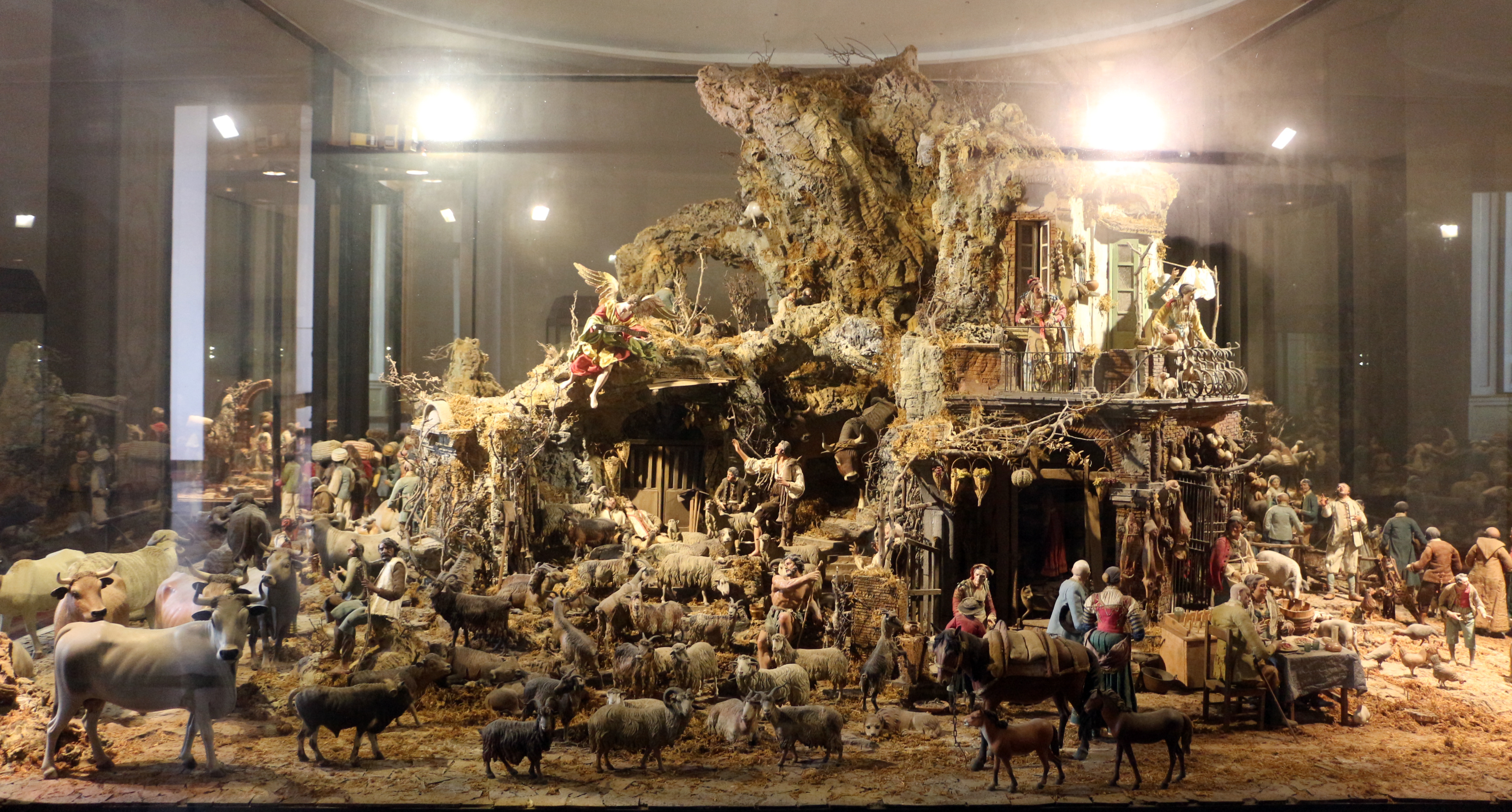 Palace of Caserta